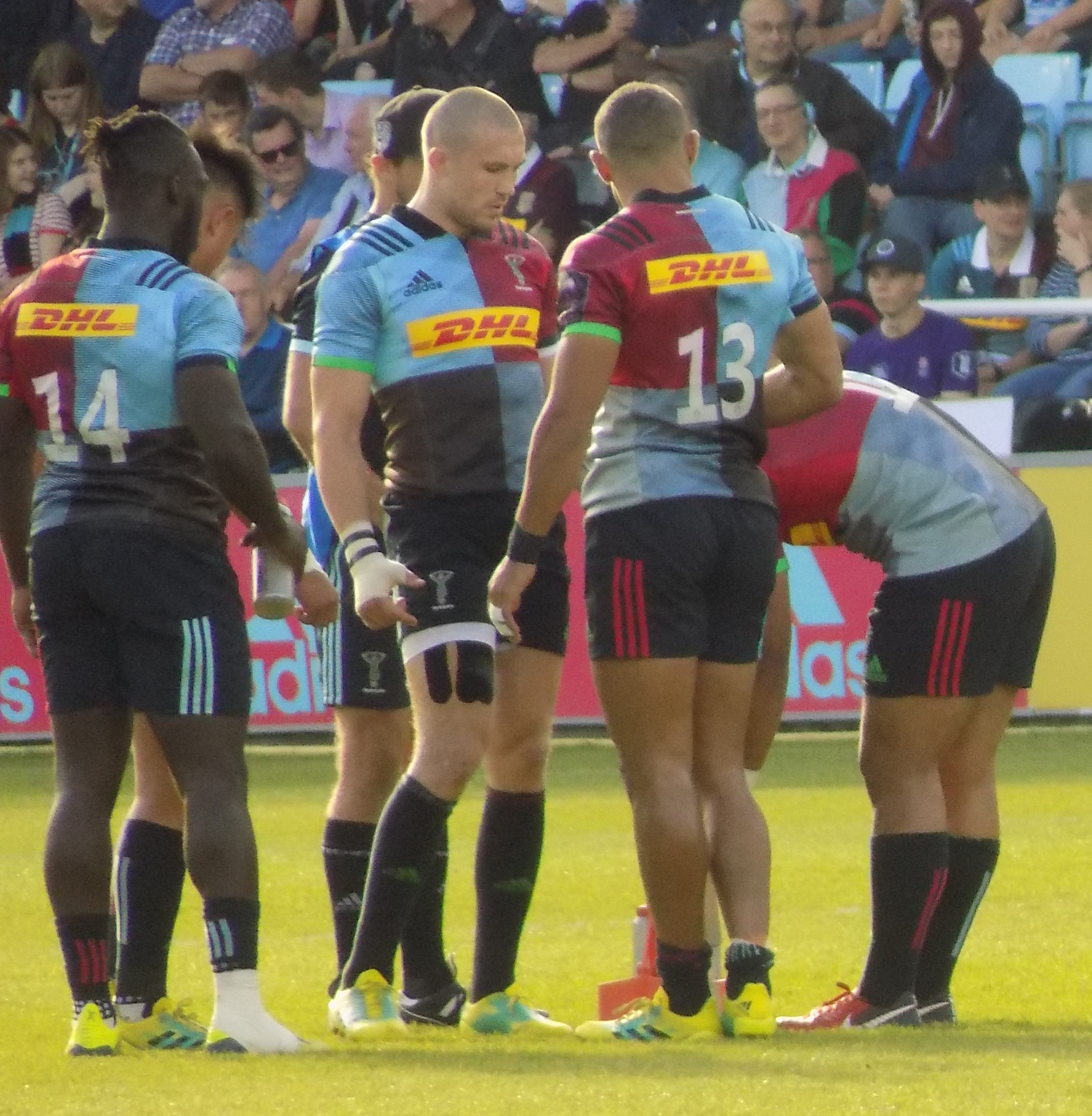 Harlequins team talk mid game, 2018